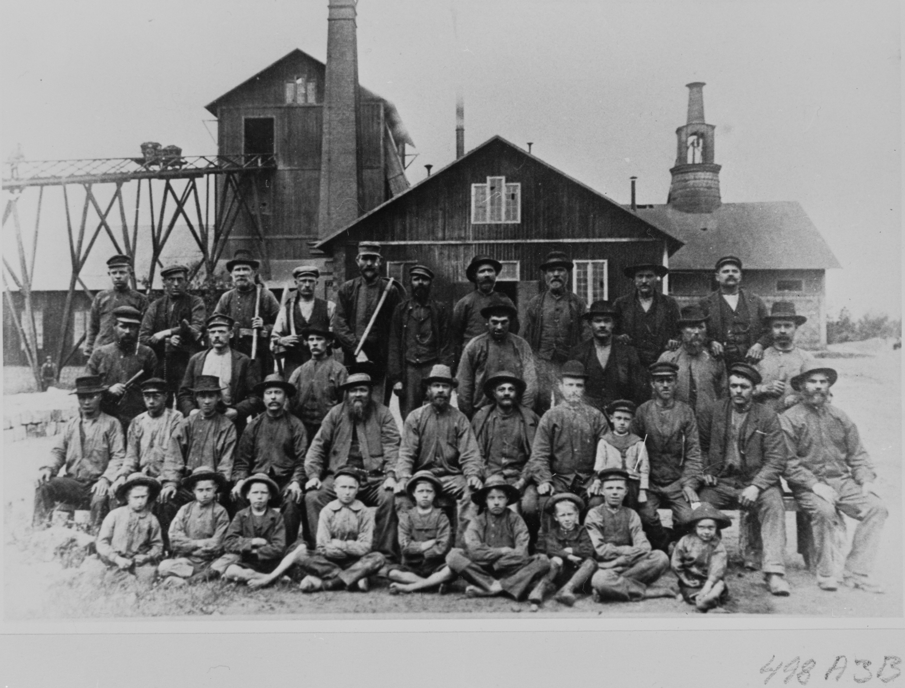 Blast furnace Spännarhyttan with staff, about 1900, Norberg, Sweden.